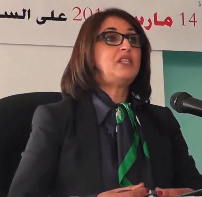 Nabila Mounib